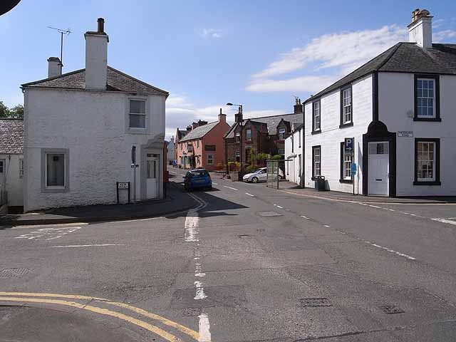 Penpont village centre A village on the A702; looking west.